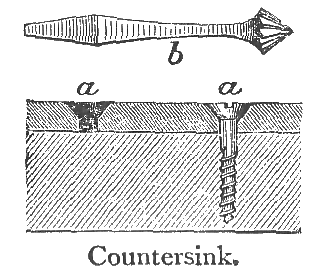 Illustration from 1908 Chambers's Twentieth Century Dictionary. Countersink, v.t. to bevel the edge of a hole, as for the head of a screw-nail (a a in fig.)—it is usually done by a Countersink-bit (b in fig.) in a brace.